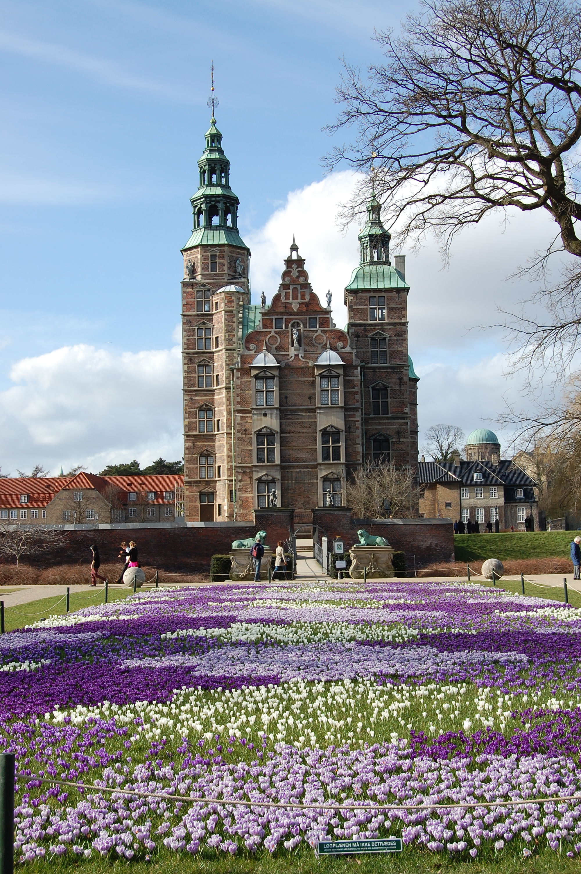 Rosenborg Castle in Copenhagen. Rosenborg Barracks can be seen to the left and the top of Østervold Observatory in the Votanical Garden is just visible to the right above another old building in Rosenborg Castle Garden.